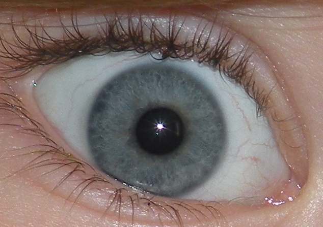 A child's blue eye with light pigment (grey).